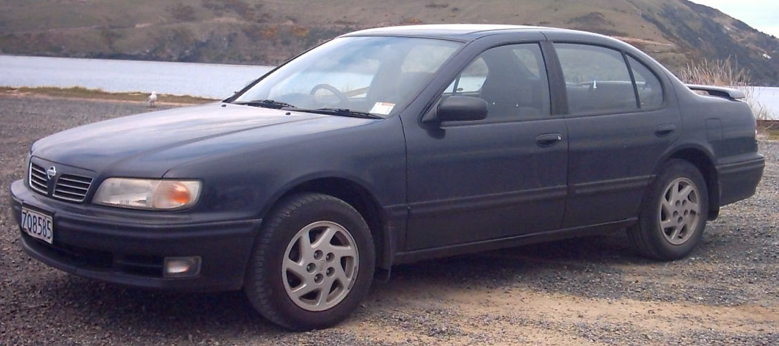 This is a 1995 Nissan Cefiro S Touring parked at Aramoana just out of Dunedin. It's quite dirty at the moment. It was imported to New Zealand from Japan in 2000.